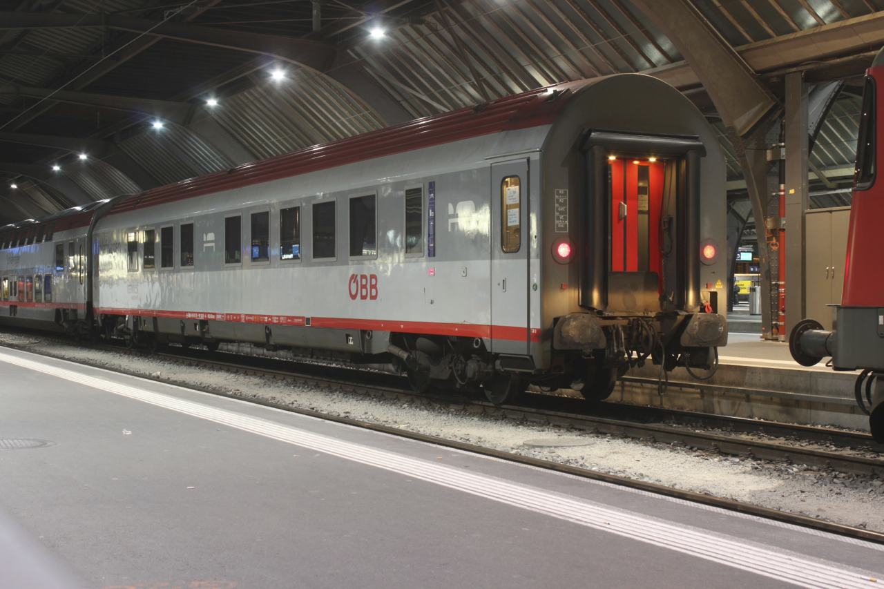 ÖBB WLABmz 61 81 70-90 202-6 at Zürich HB in the consist of EuroNight 467 (as coach #701) to Wien Westbf.